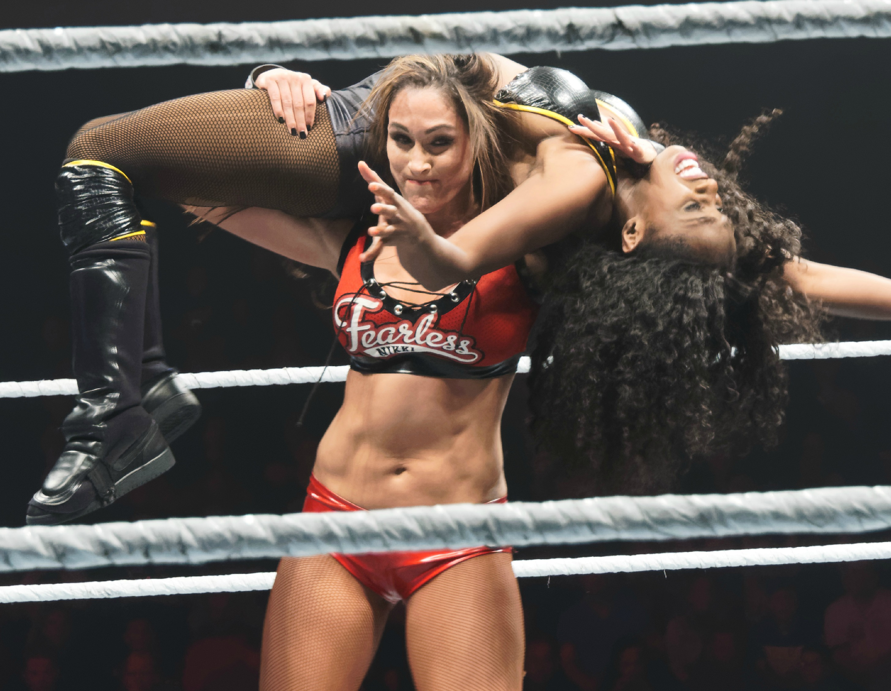 Nikki Bella setting up the rack attack on Naomi during a live event.